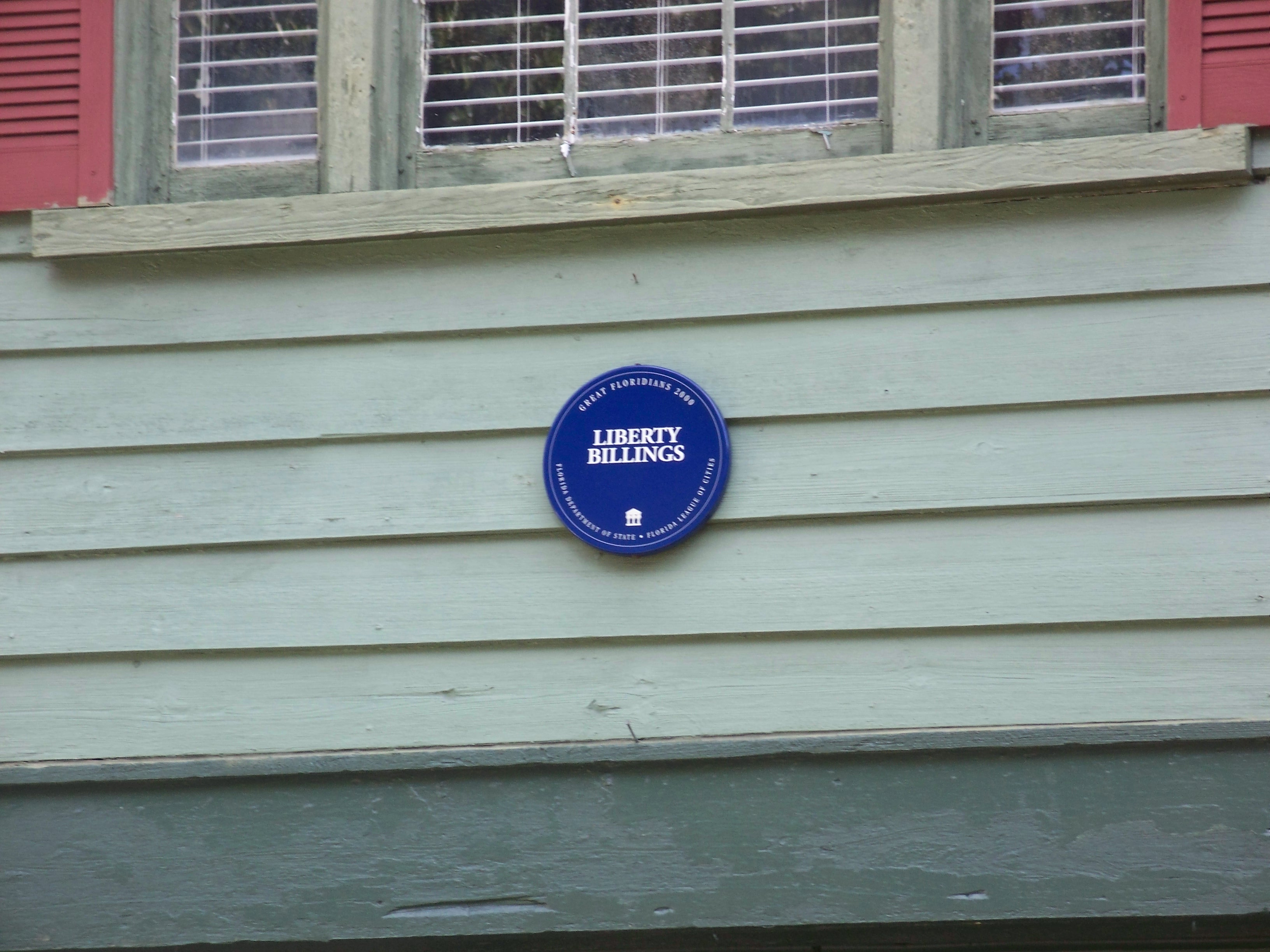 Fernandina Beach, Florida: Liberty Billings house: Great Floridians plaque